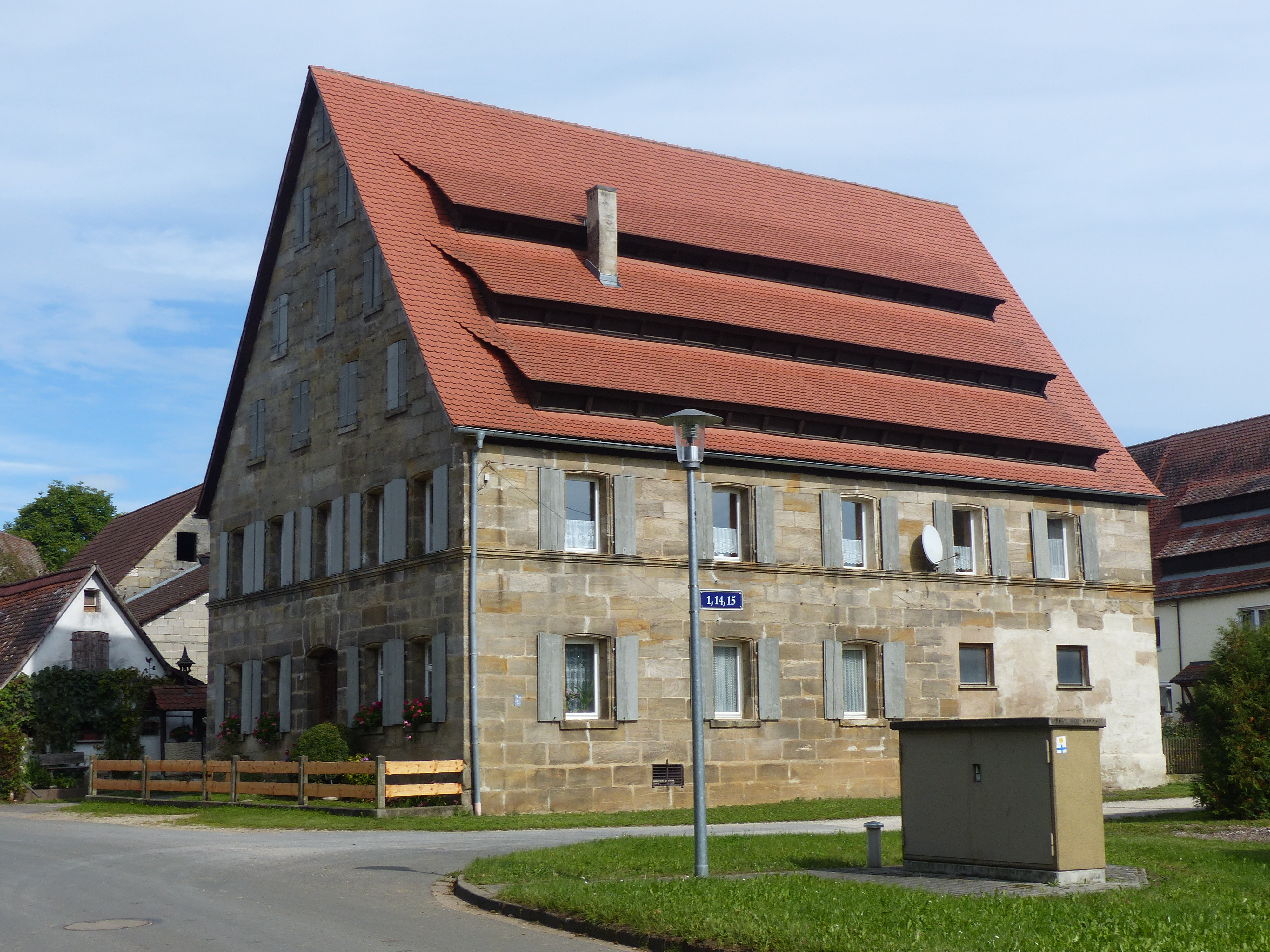 A former byre-dwelling in the village Rüblanden, a part of the municipality of Ottensoos